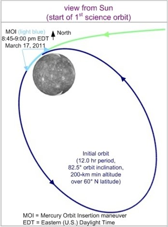 Orbital Insertion Trajectory of MESSENGER.